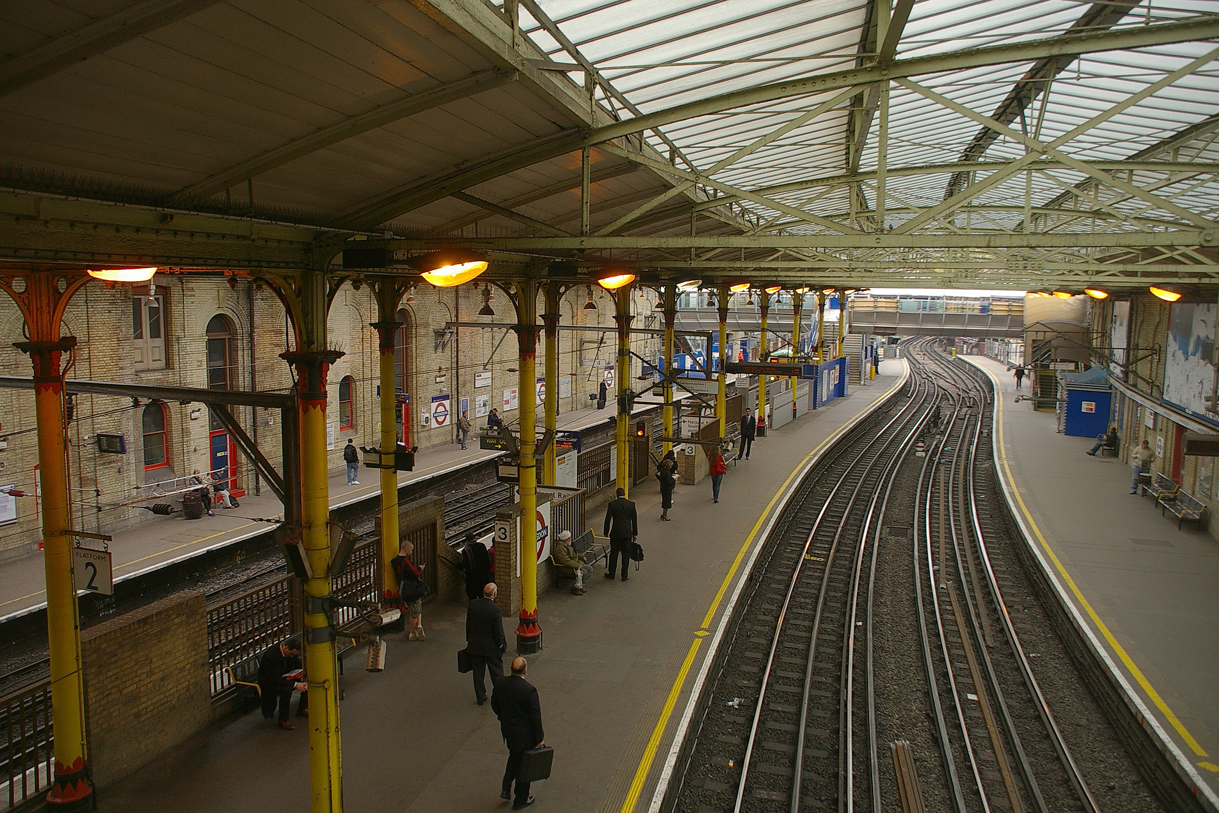 Farringdon railway station. The underground (circle/metropolitan) line is on the right.